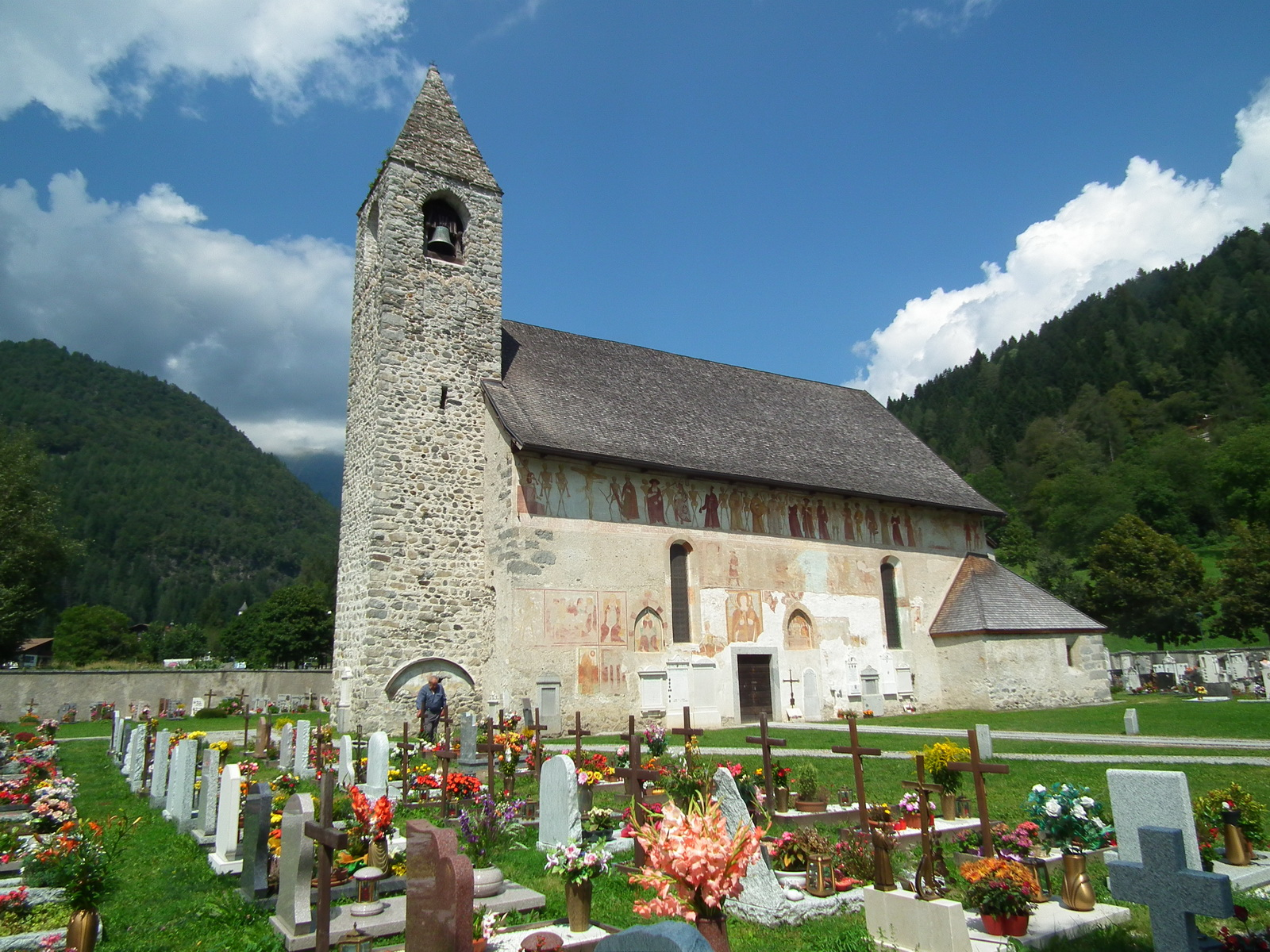 Saint Vigilius church Native nameChiesa di San VigilioLocationPinzolo, Trentino-Alto Adige/Südtirol, ItalyCoordinates46° 09′ 53.8″ N, 10° 45′ 52.9″ E Authority control : Q5117065 institution QS:P195,Q5117065